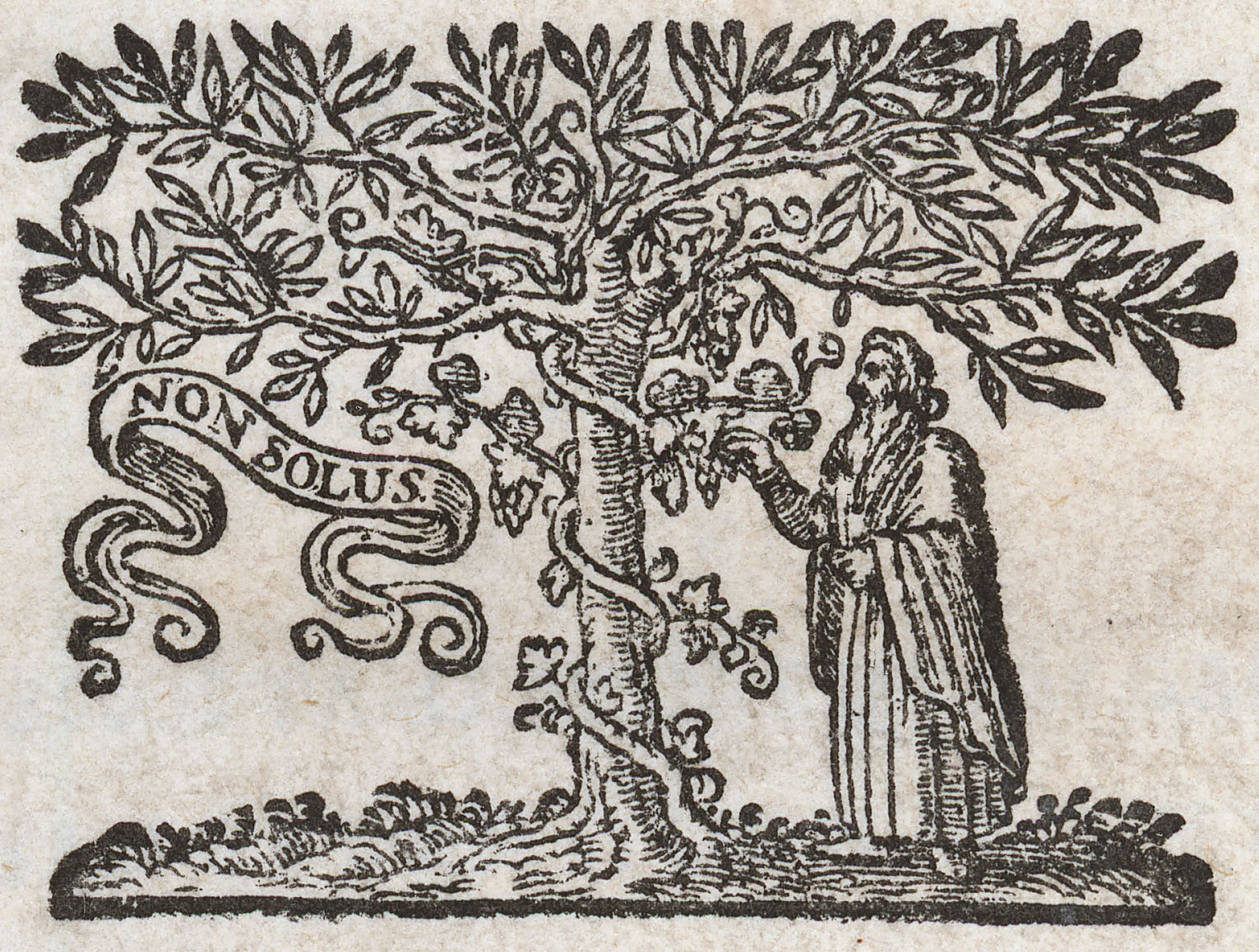 The Elzevier printer’s mark, woodcut from the title page of Nikolaes Heinsius the Elder, Poemata (Latin poems), first edition, printed by the Elzevier/Elsevier printers in Leiden, 1653. The full Latin title reads: Nicolai Heinsii Dan[ielis]. Fil[ii]. Poemata. Accedunt Joannis Rutgersii, Quæ quidem colligi potuerunt. Lugd[uni]. Batav[orum]. Ex Officinâ Elseviriorum Academ[icorum] Typograph[orum]. M DC LIII.